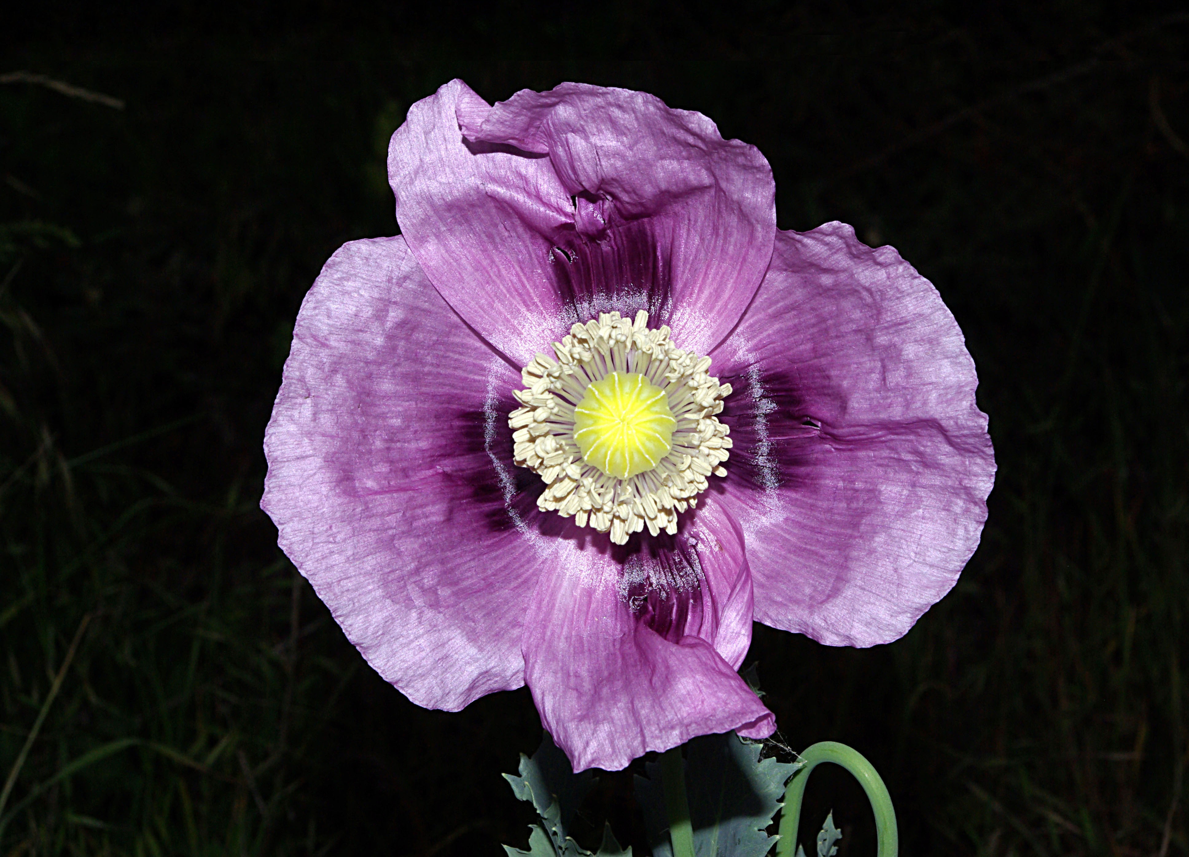 Flower of opium poppy (Papaver somniferum), near Castromonte (Valladolid, Spain)